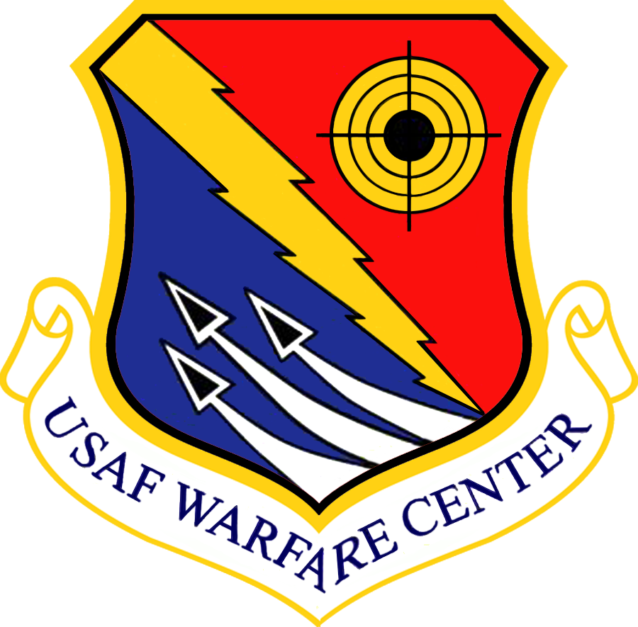 United States Air Force Warfare Center emblem. Made with Photoshop.